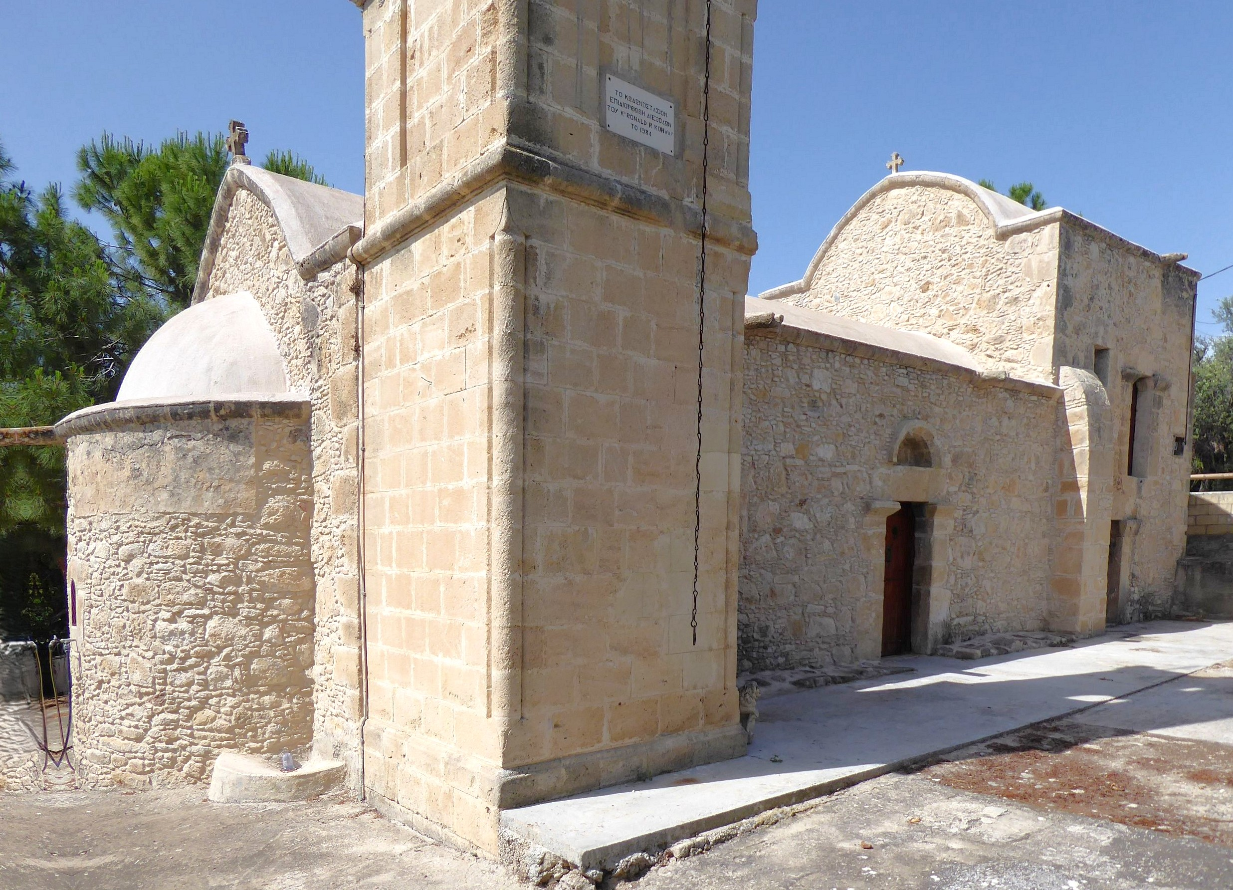 Church of Archangel Michael (Choli)